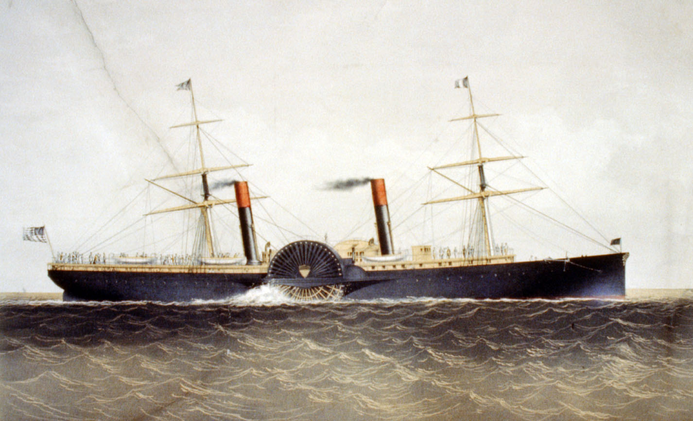 SS Adriatic, 5,888 tons, 1,350 hp, built by George Steers, engine built by Novelty Works, New York.